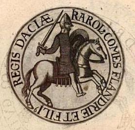 Charles of Flanders